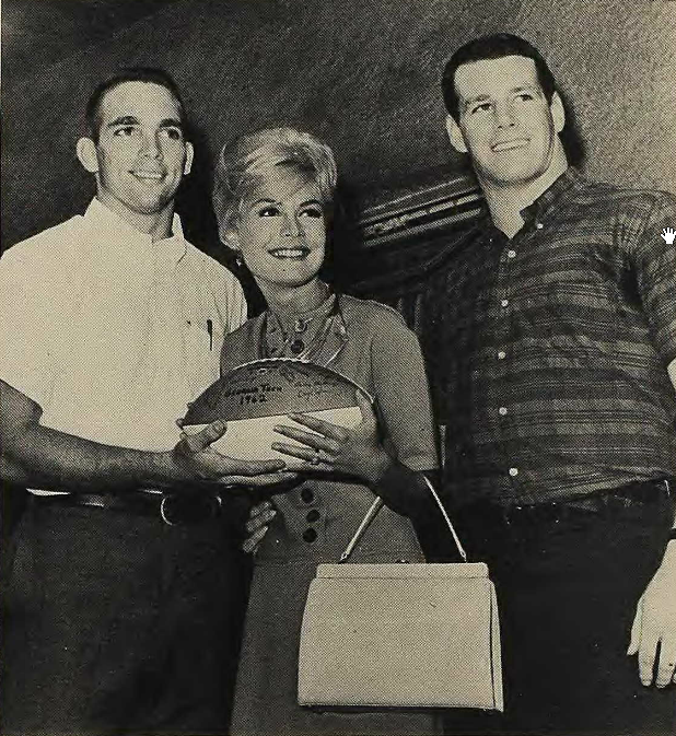 Tom Winingder, Sandra Dee and Larry Stallings